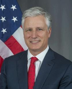 Robert C. O'Brien, Special Presidential Envoy for Hostage Affairs